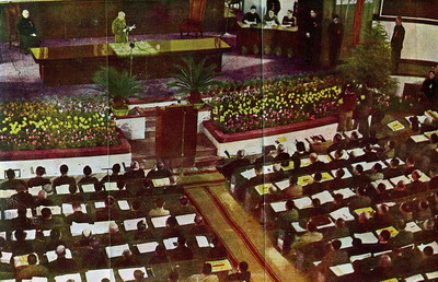 Some administrators, especially User:Shizhao, should notice that the copyright has expired!